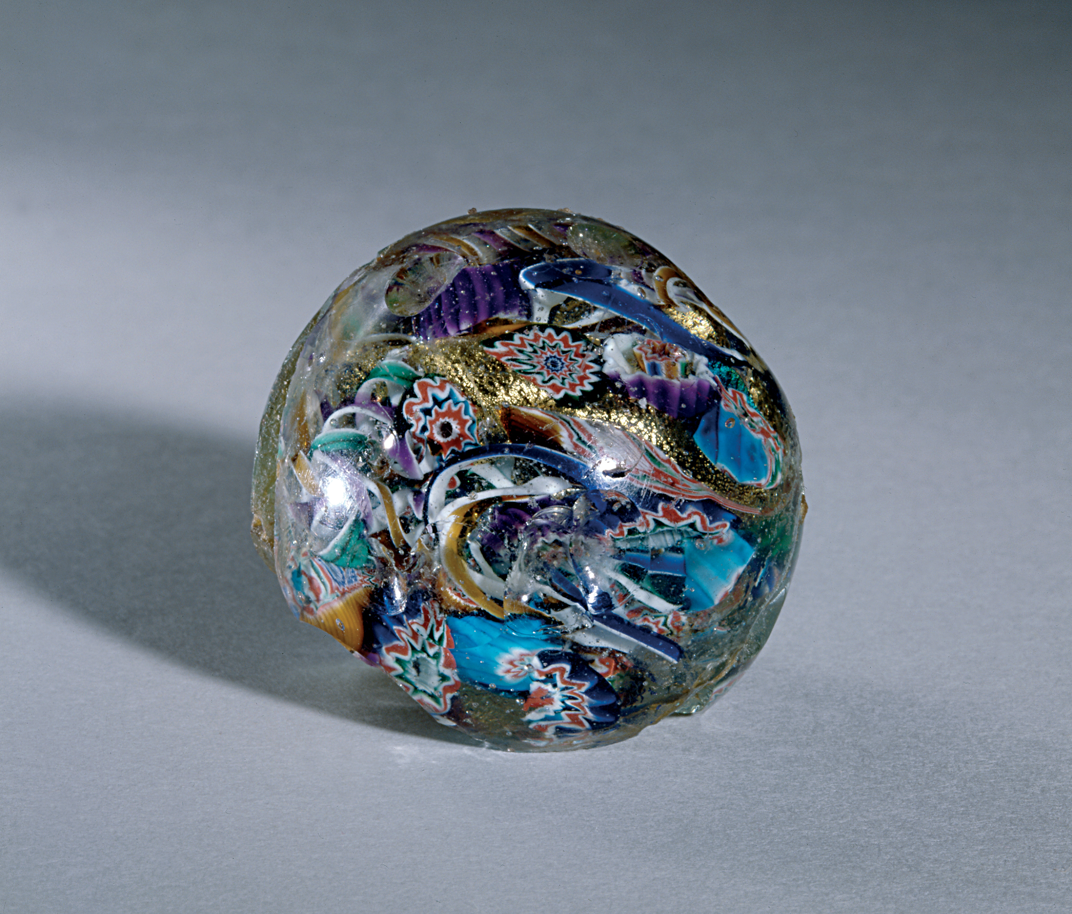 Venice, after 1500; Glass embedded with coloured glass and gold; diameter 3.25 cm; Inv. 1917.824.